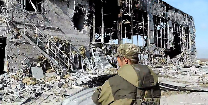 Ruins of Donetsk Sergey Prokofiev International Airport, October 16, 2014.